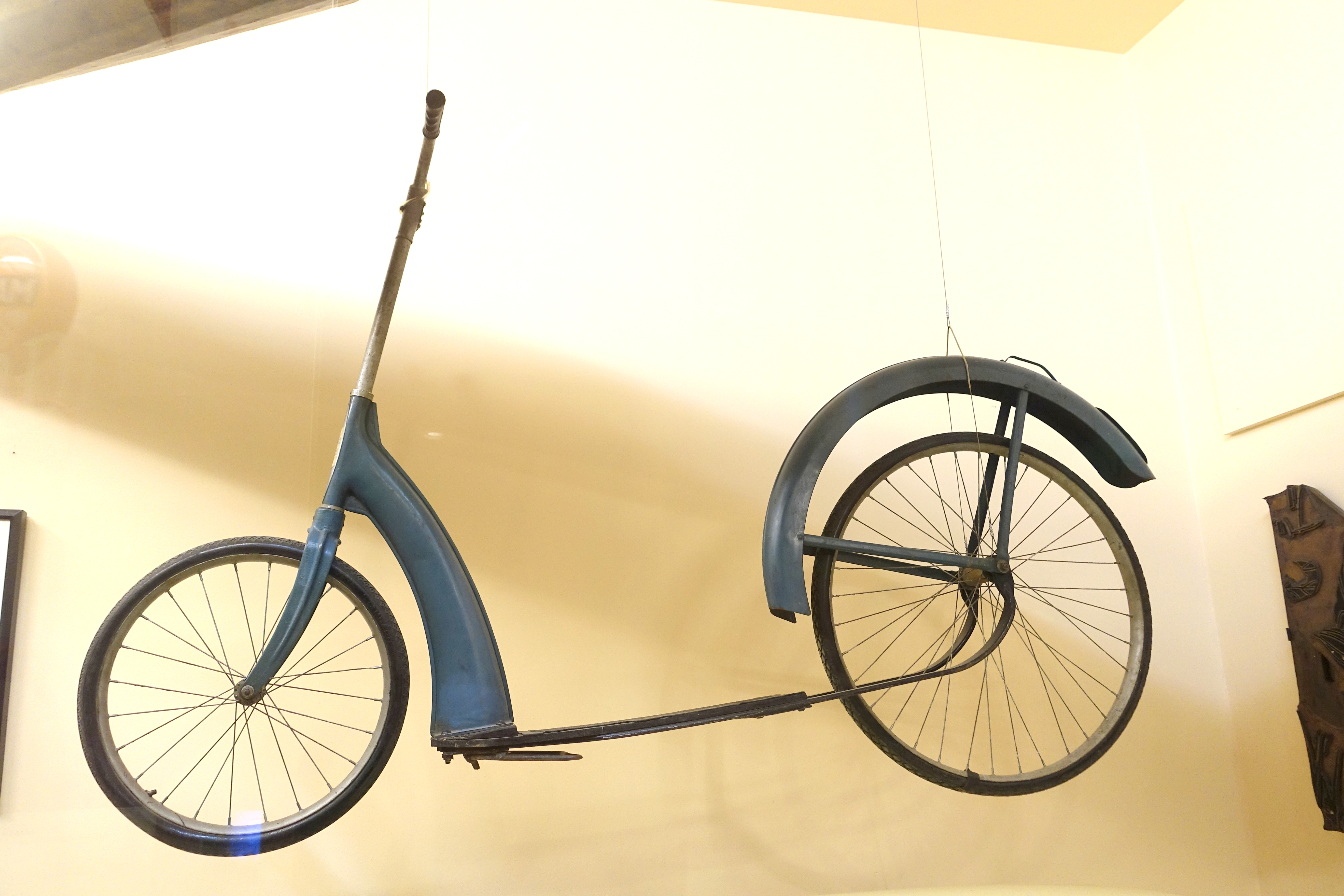 Exhibit in the Museum of Science and Industry, Chicago, Illinois, USA.